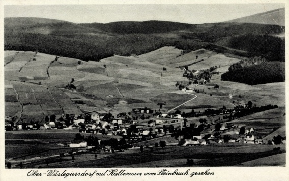 This is an old picture postcard of Ober-Wüstegiersdorf in Silesia.